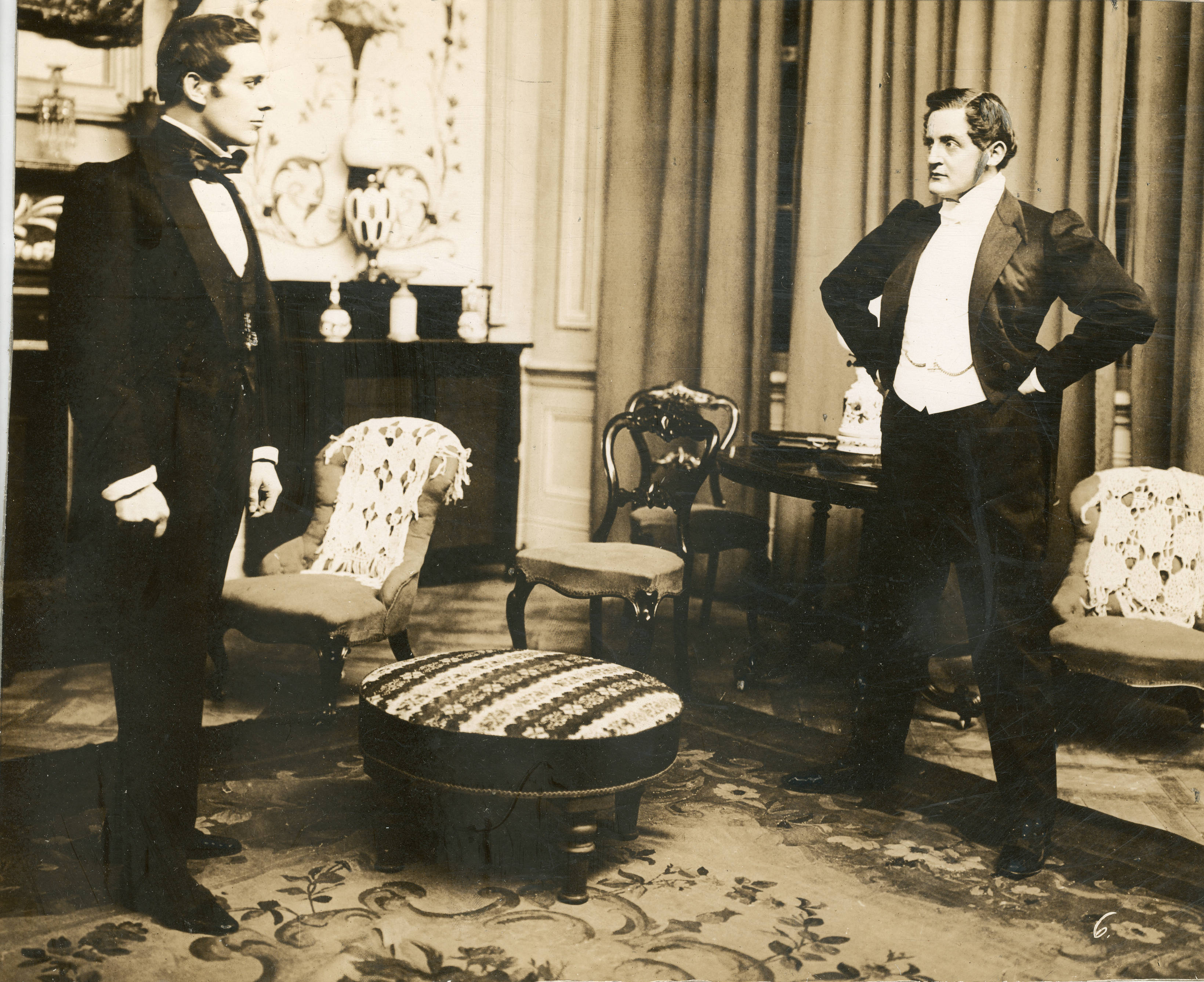 A scene from Milestones Subjects: plays